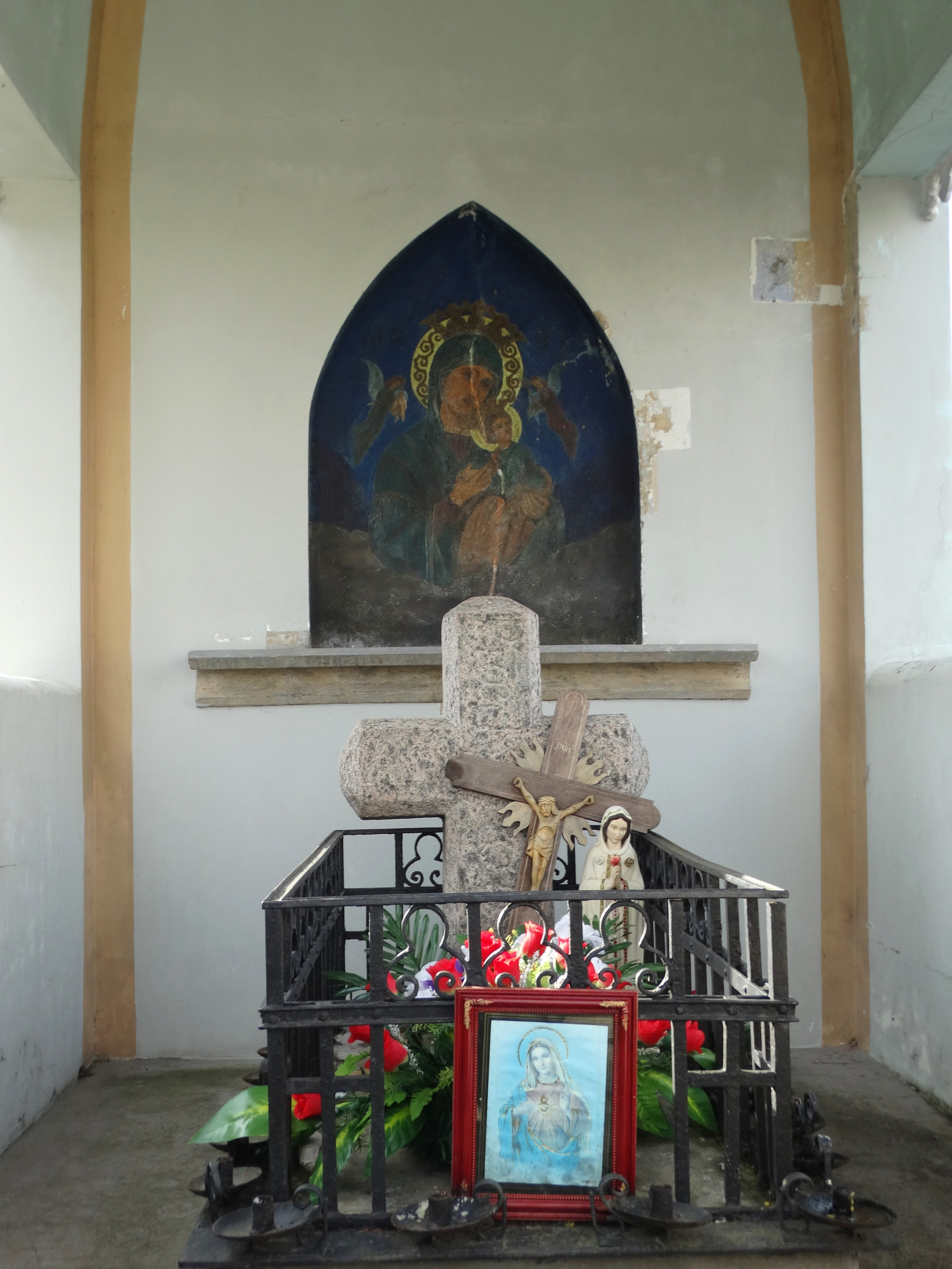 Chapel of Jurgis Pabrėža, Kretinga, Lithuania